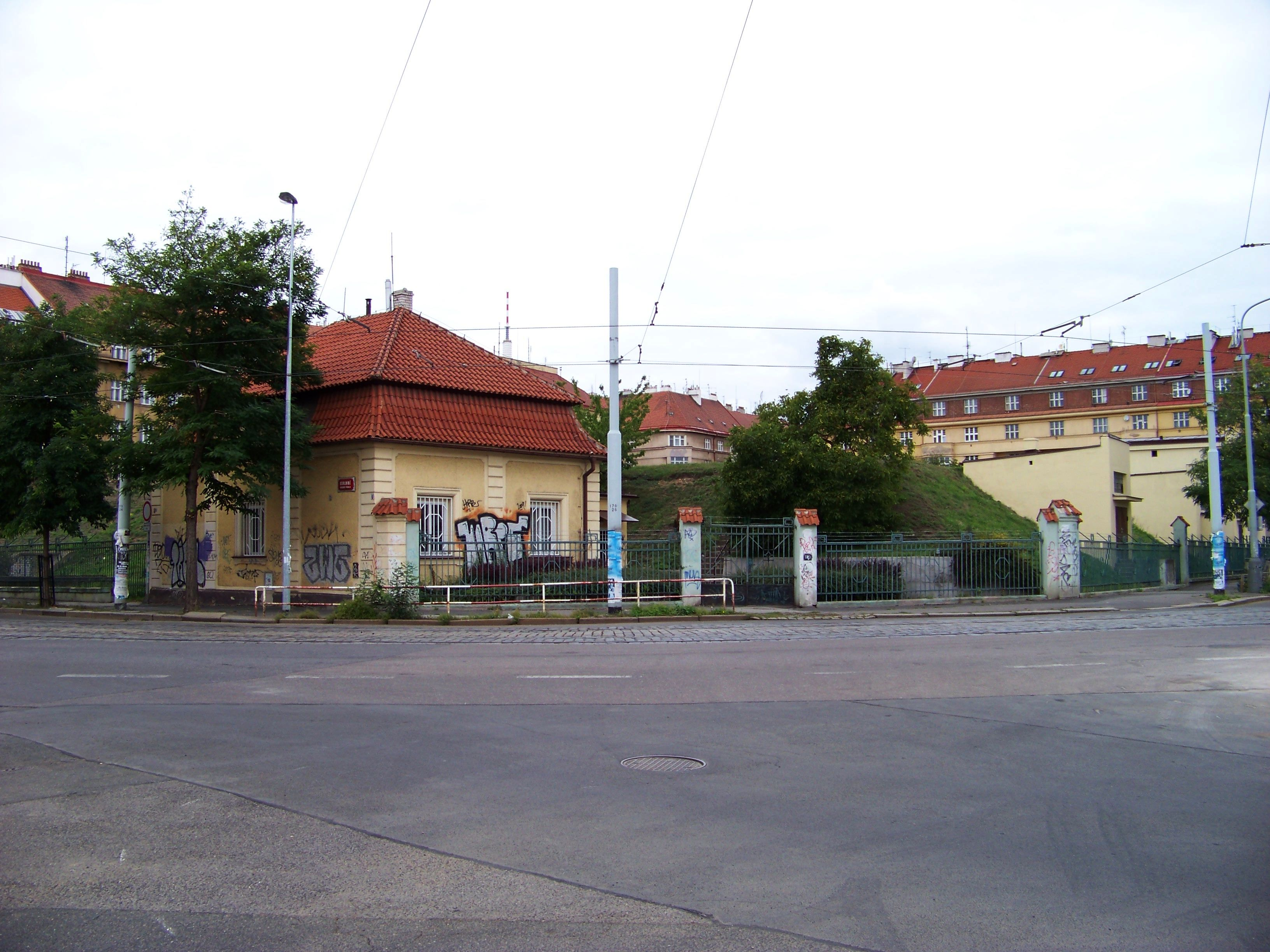 Prague-Vinohrady, the Czech Republic. Jičínská and Korunní street, water works.